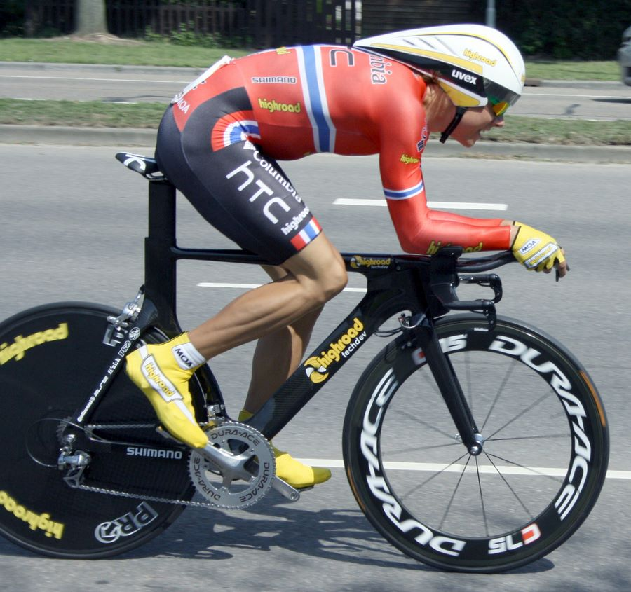 Edvald Boasson Hagen at the 2009 Eneco Tour prologue